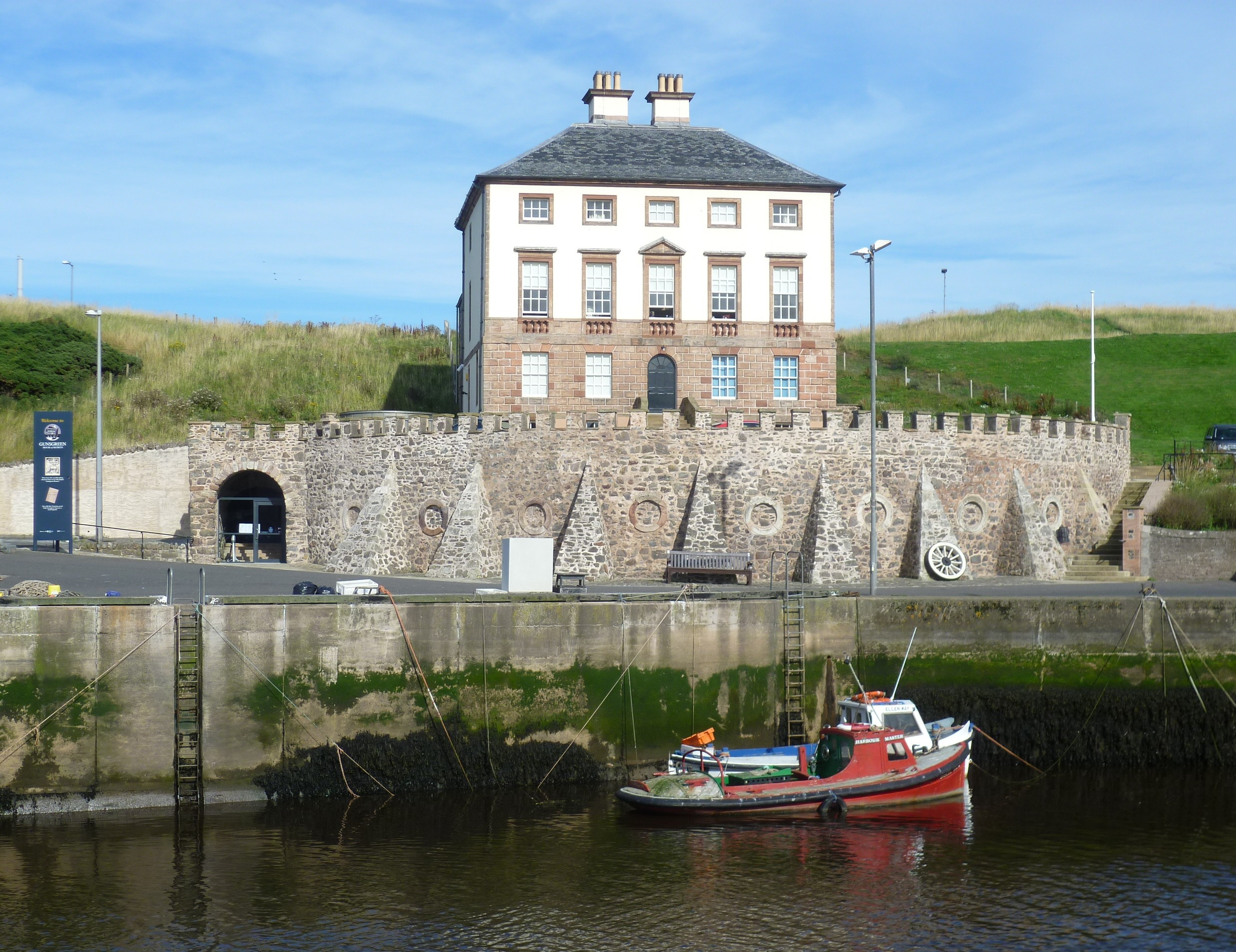 Gunsgreen House, Eyemouth